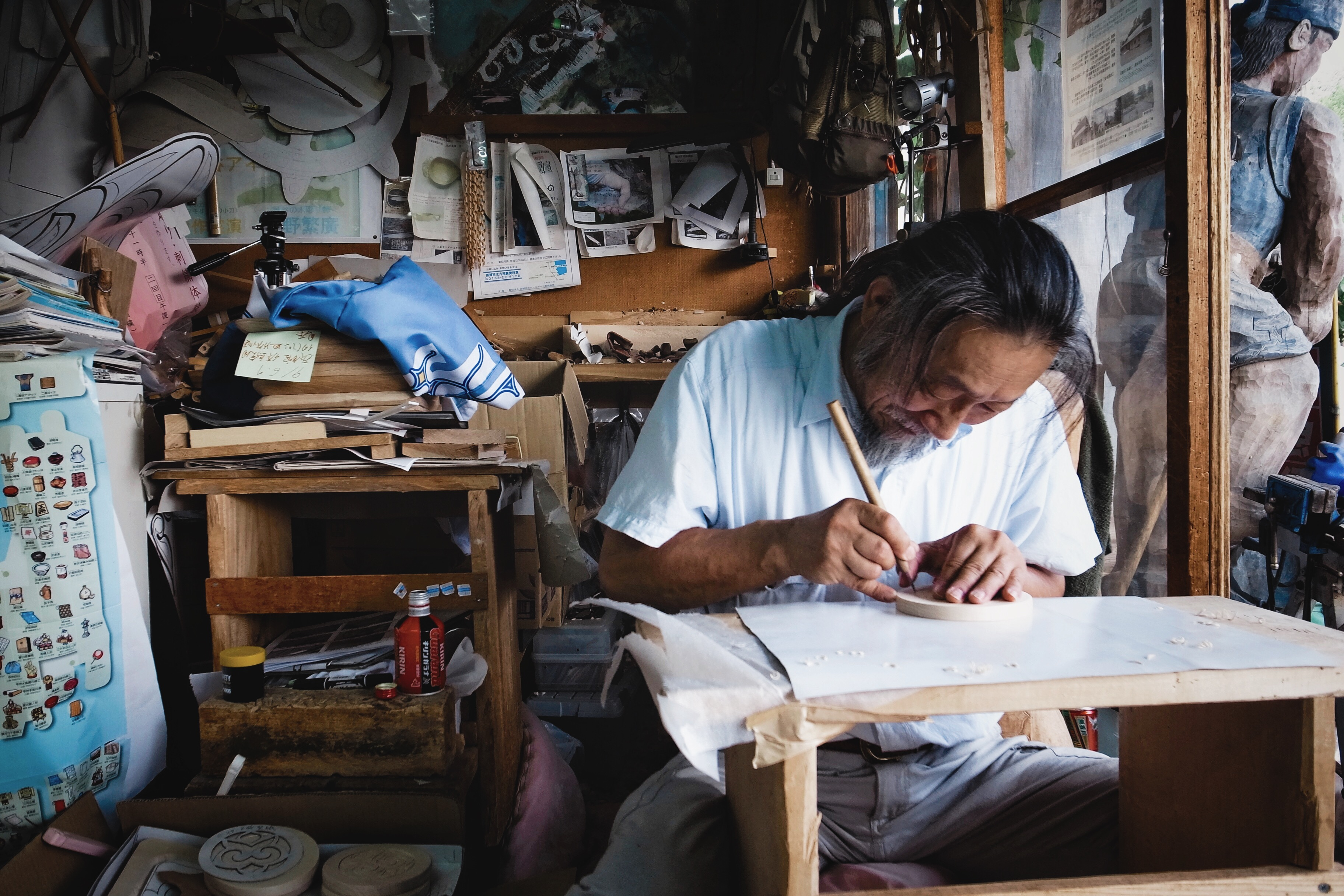 An Ainu craftsman in Nibutani